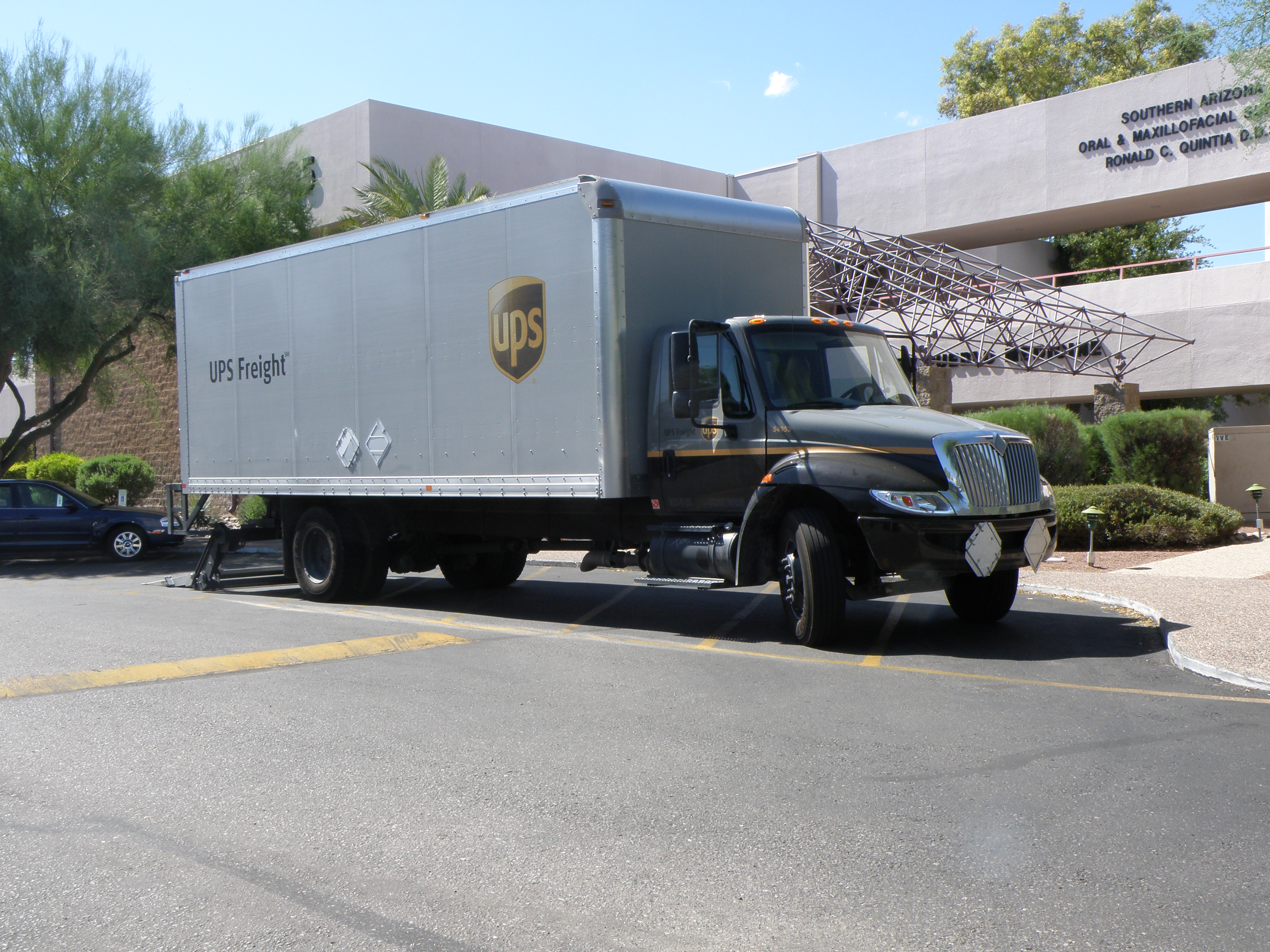 Mid to late 2000s International Durastar 4000 box truck owned by UPS subsidiary UPS Freight.